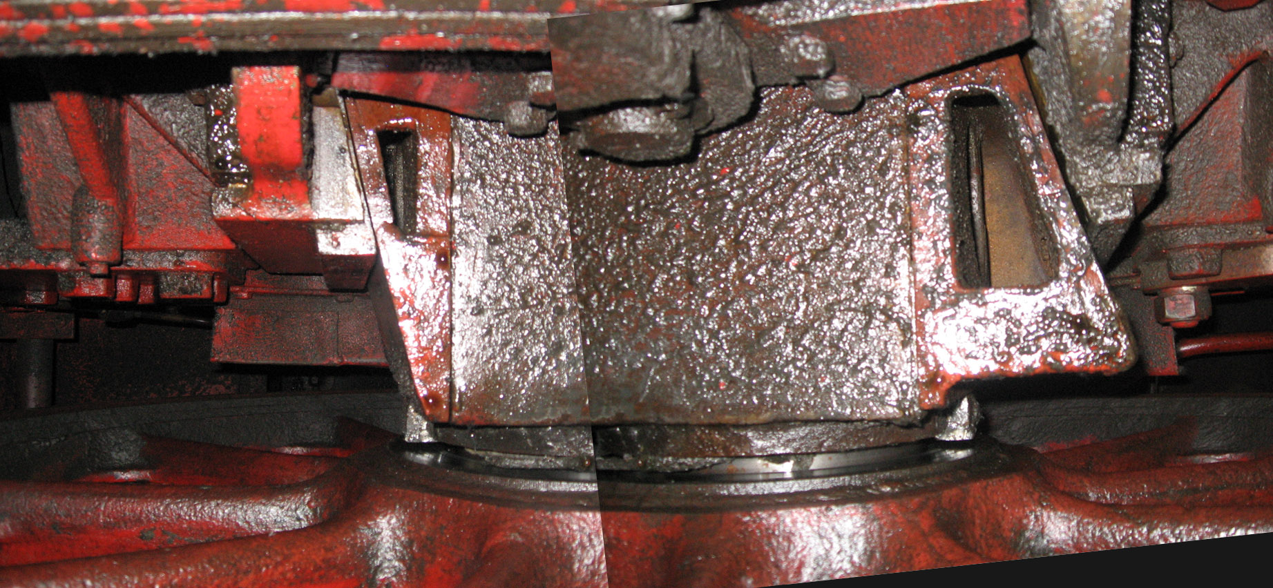 Adams´ axle on DR 03 001 in museum Dresden Altstadt. Picture consists two photo made from downstairs to be seen both guiding surfaces